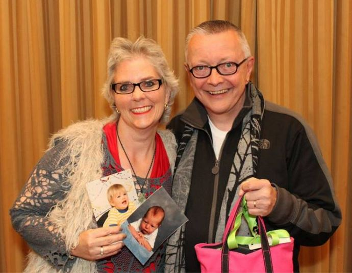 From Operation Bumblebee Oct 2014 "Susanna Forsyth" and psychic Chip Coffey. He insists months later that he knew all along that "Susanna" was not a believer but a part of the skeptic group that came to "sting" him. Does this smiling man look like he knew that at the time? He even asked to hold my purse as he thought it was funny. I am holding photos of my dead son Matthew, whom 30 minutes prier Coffey had talked to in the Spirit World. Those photos are of my son Stirling who was in attendance at that show, I do not have a dead son, nor one named Matthew.